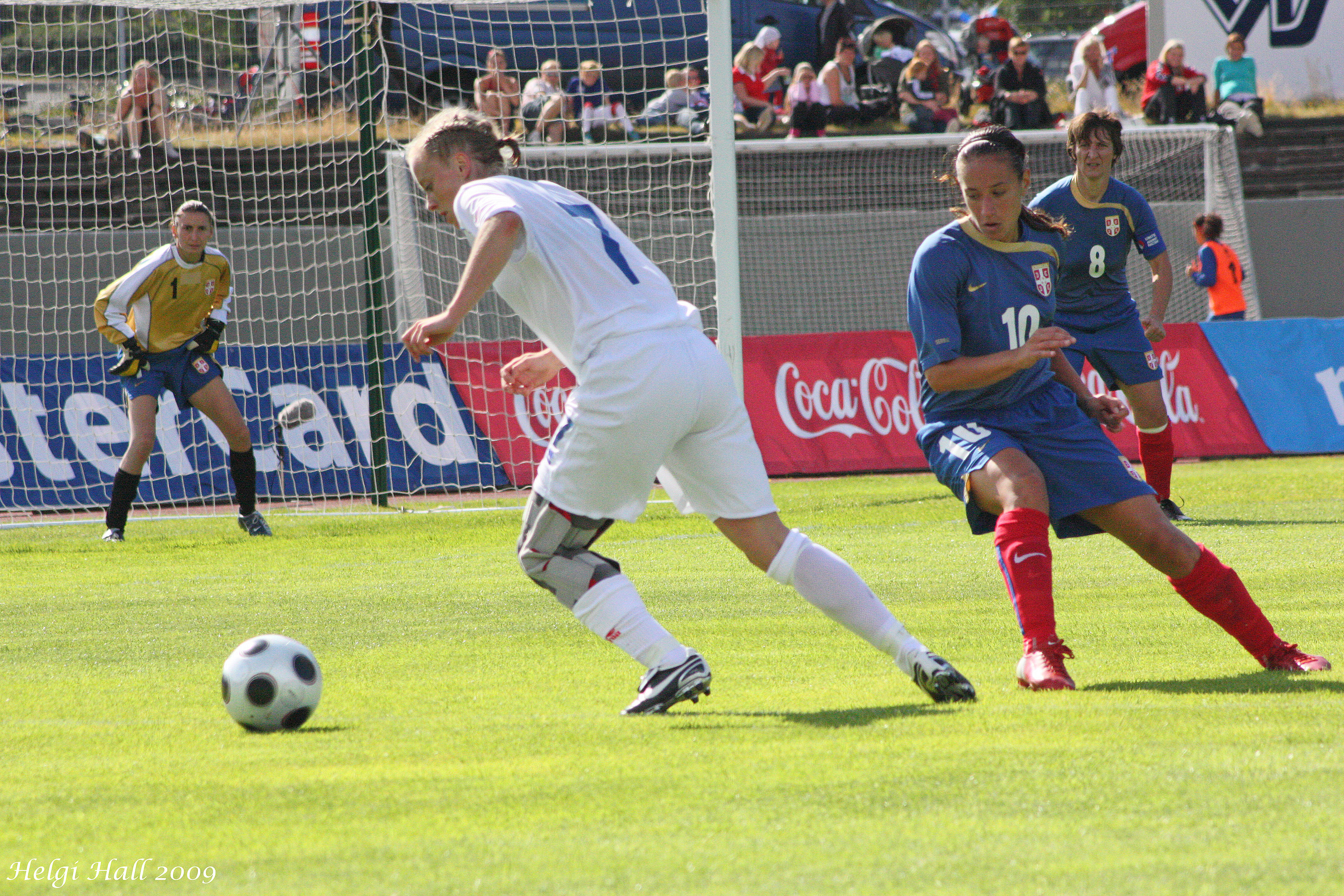 Dóra Stefánsdóttir (7) in Iceland - Serbia/2011 FIFA Women's World Cup qualification UEFA Group 1